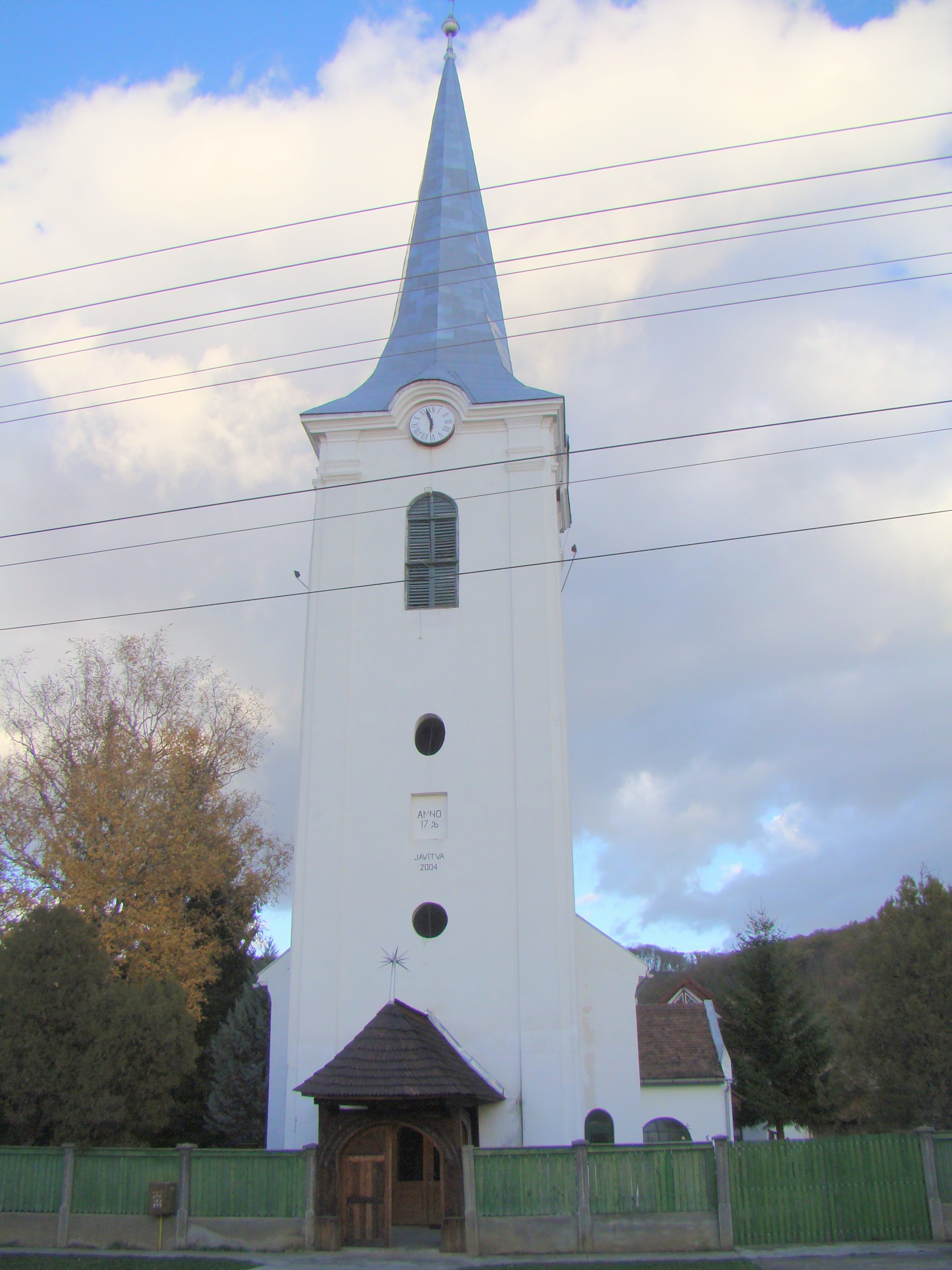 Reformed church in Pănet, Mureş county, Romania